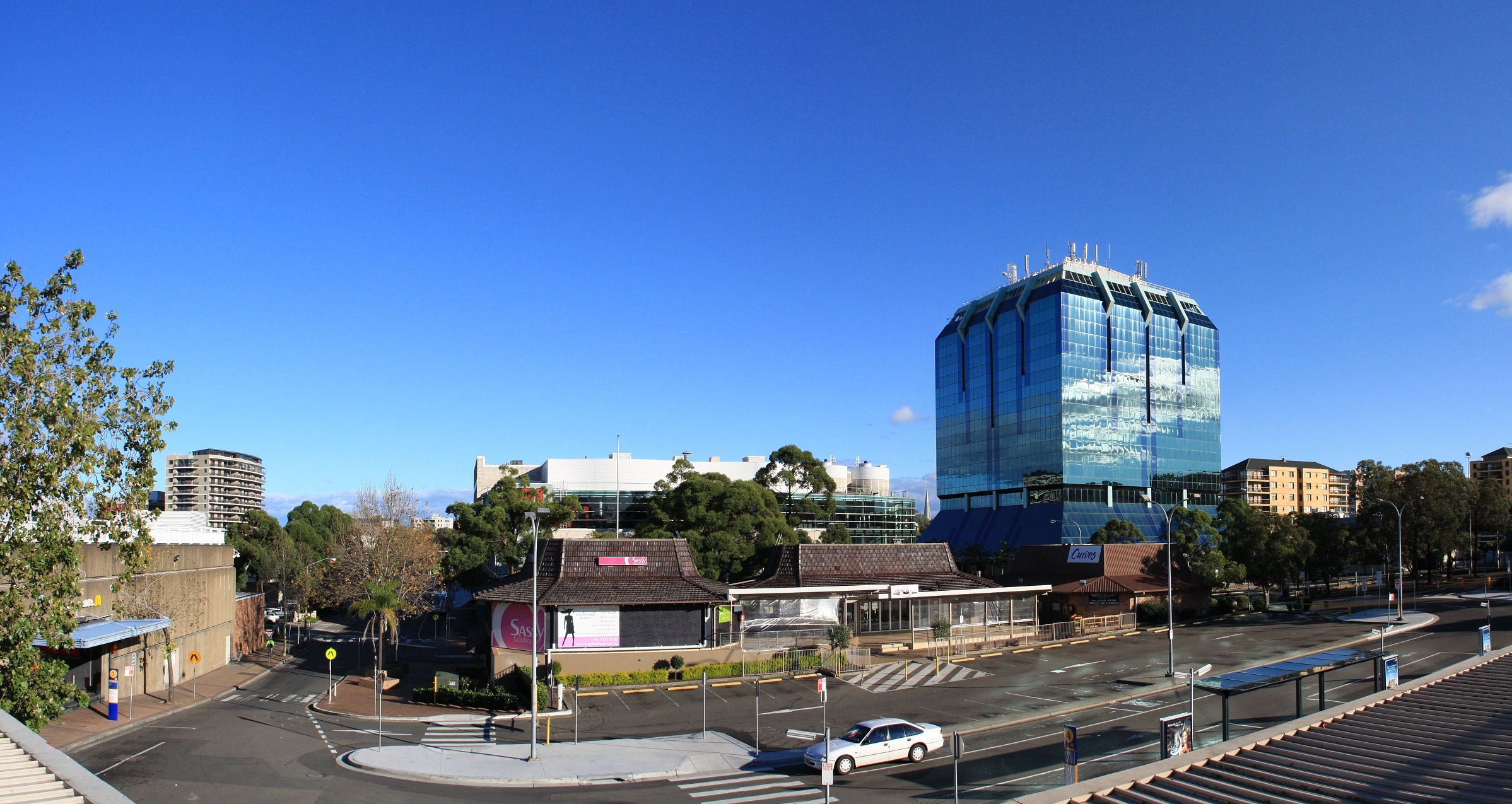 Bankstown, New South Wales